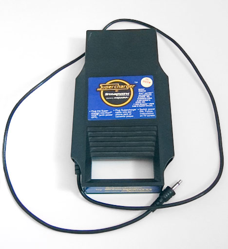 Starpath Supercharger cartridge for the Atari VCS/2600 games console.